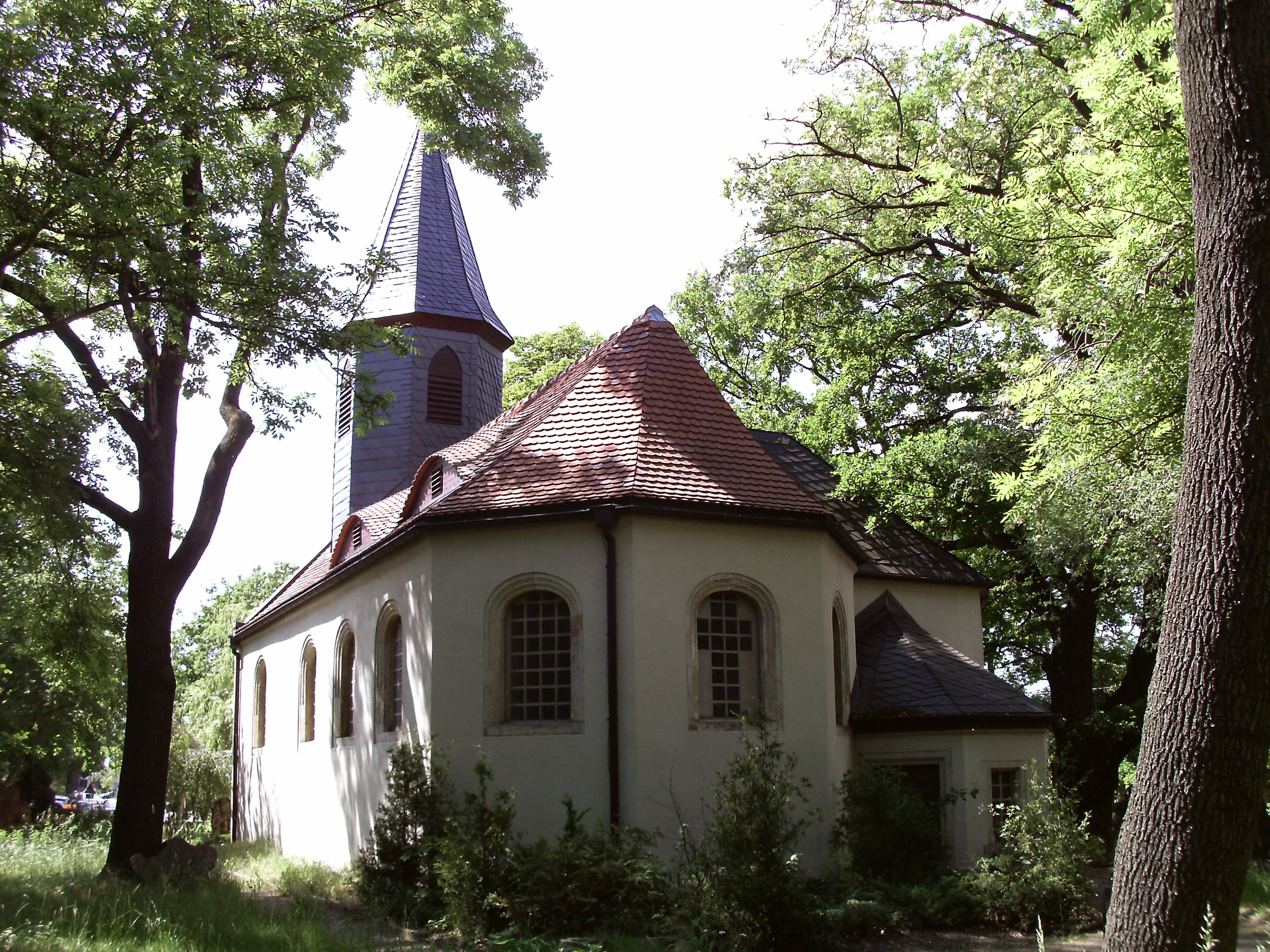 St. John the Baptist Church in Diemitz (Halle/Saale, Saxony-Anhalt)